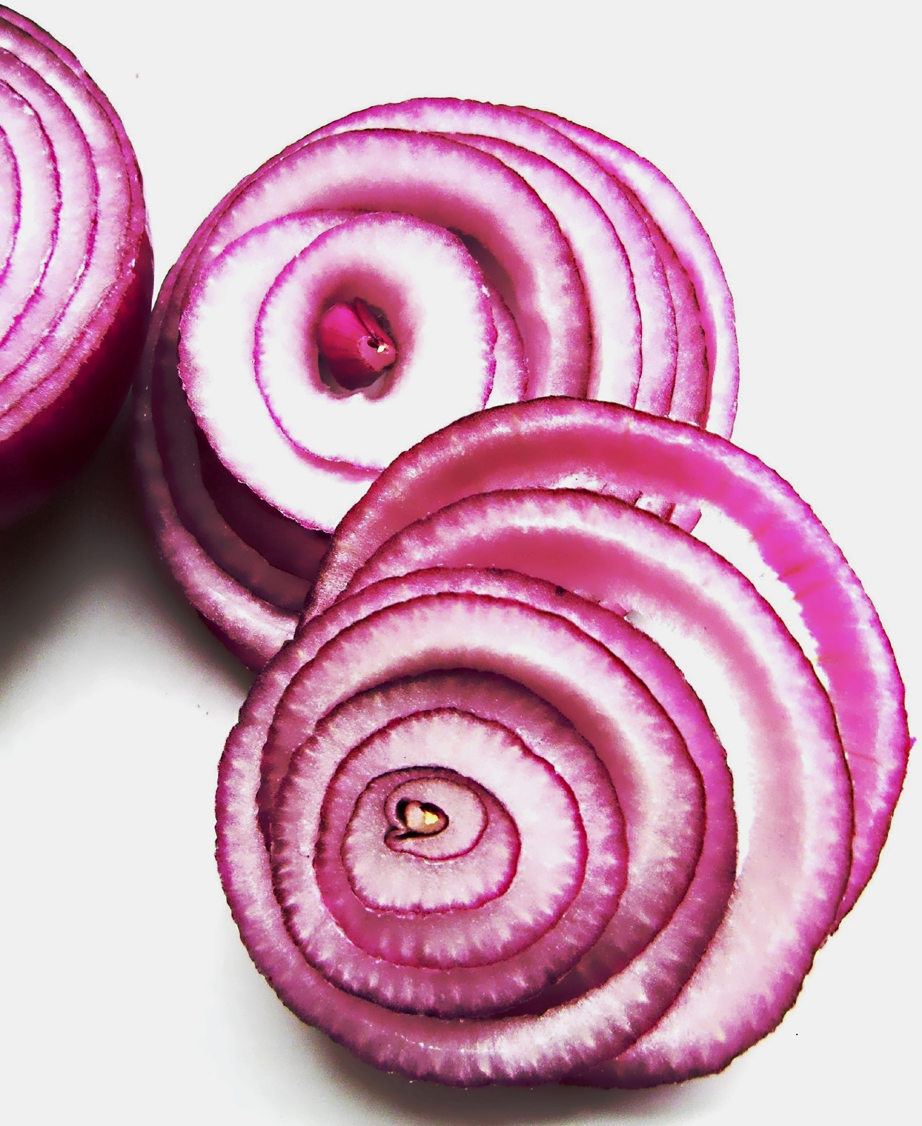 One a day food item #26 (take 1) 65 on Explore 1/23/2007